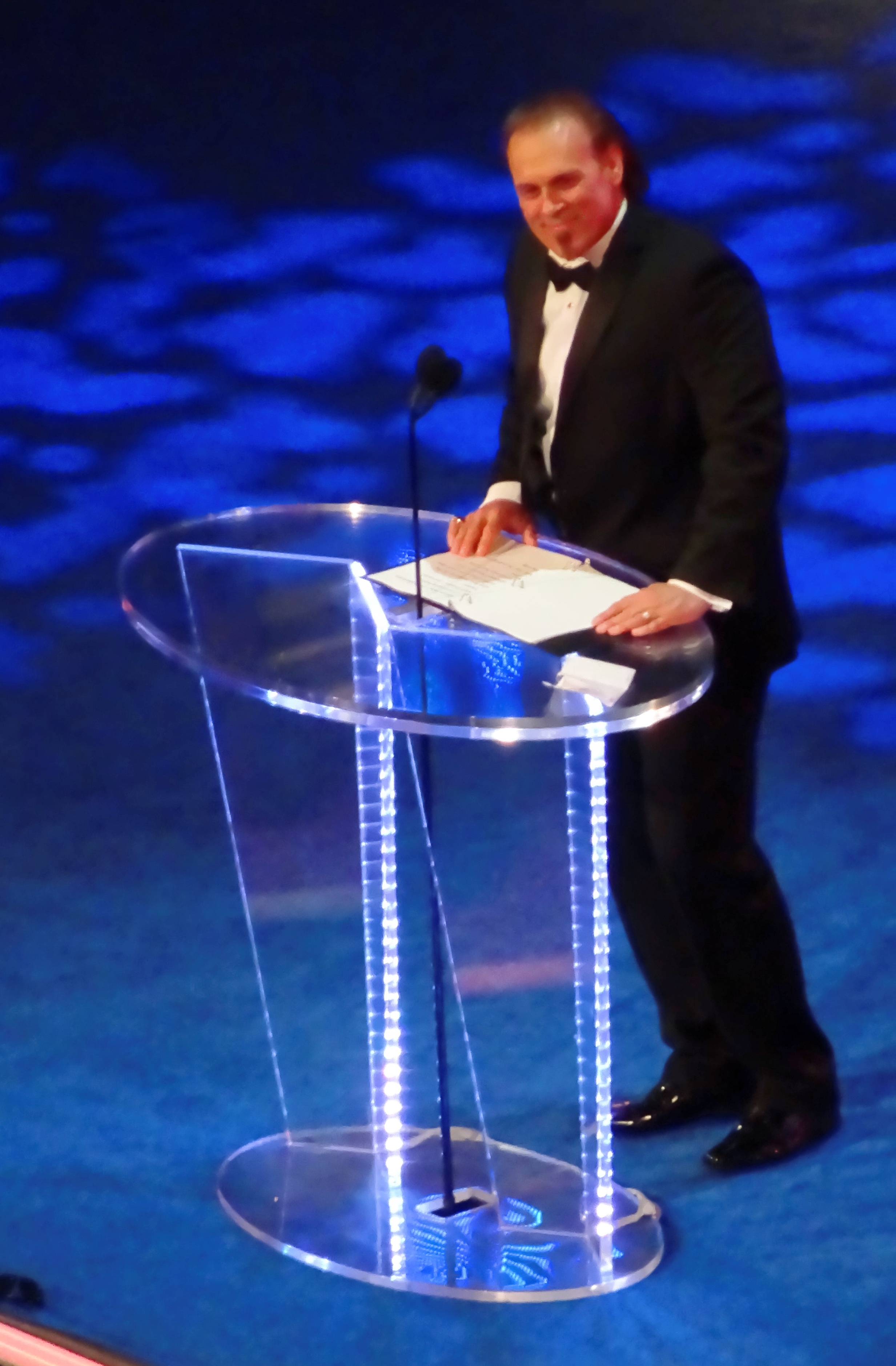 Sting at the 2016 WWE Hall of Fame ceremony